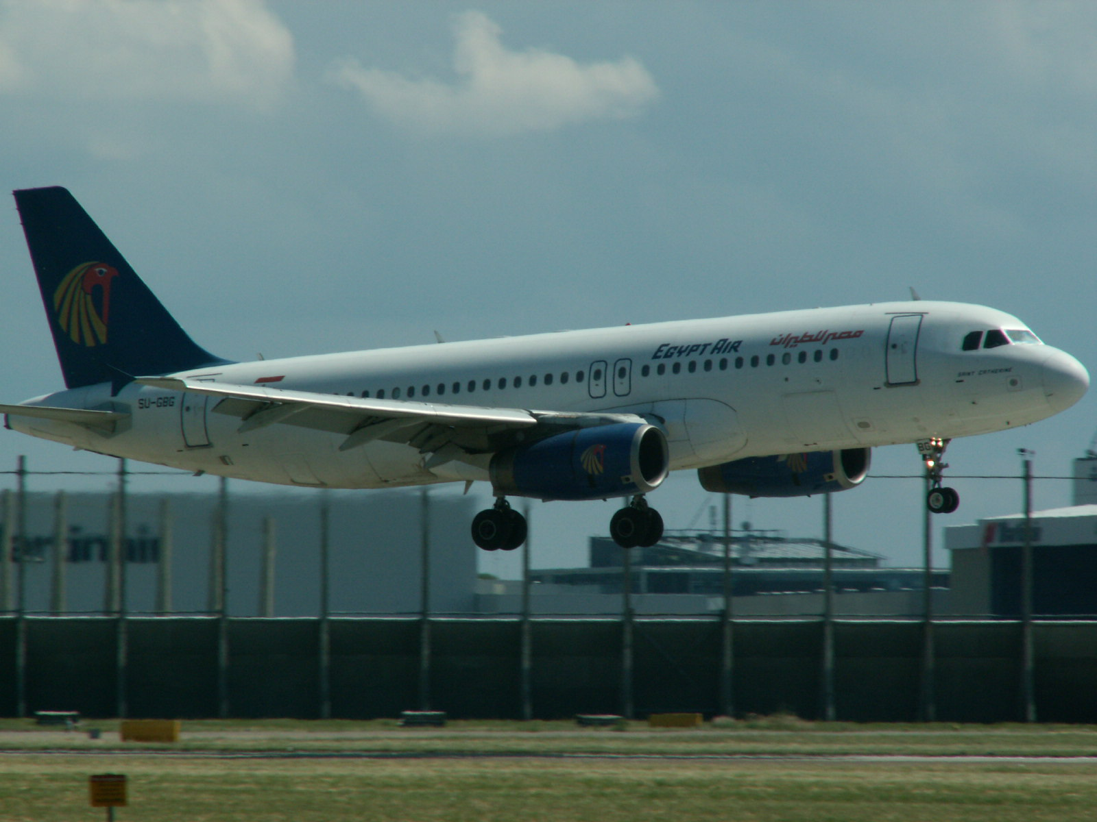 A Plane landing on the Buitenveldertbaan